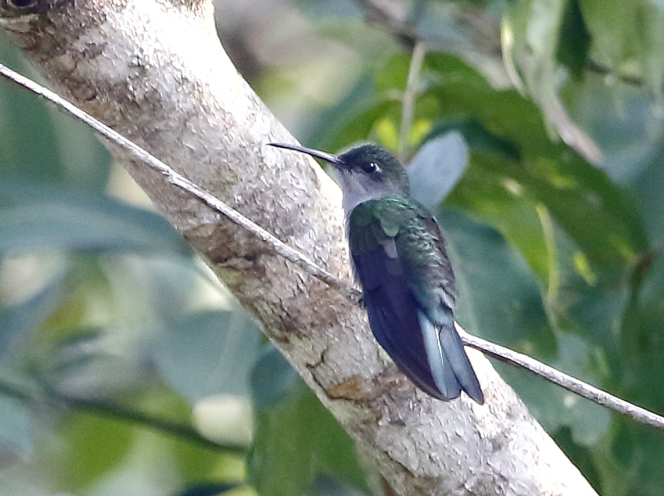 Grey-breasted sabrewig; Carajás National Forest, Pará, Brazil